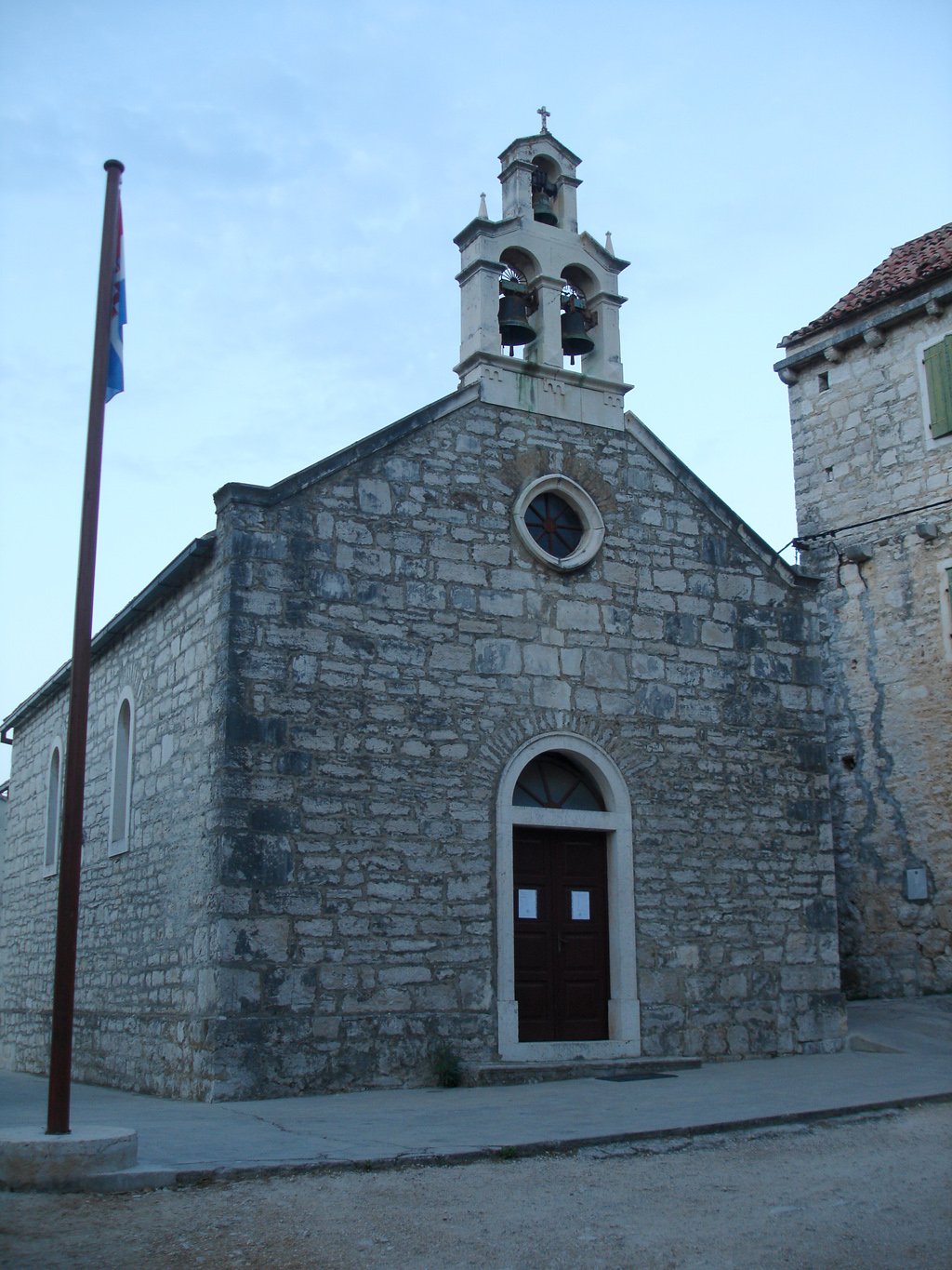 Church of Stomorska, island of Solta, Croatia.